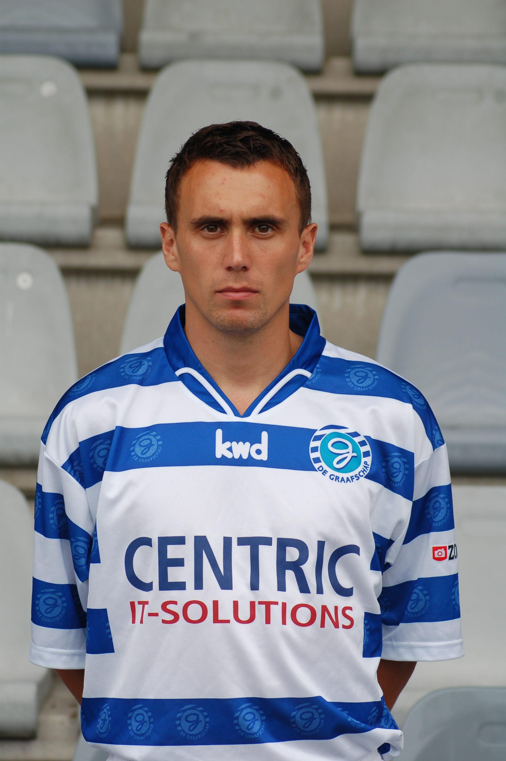 Arnar Viðarsson (Reykjavik March 15, 1978) is an Icelandic football player.